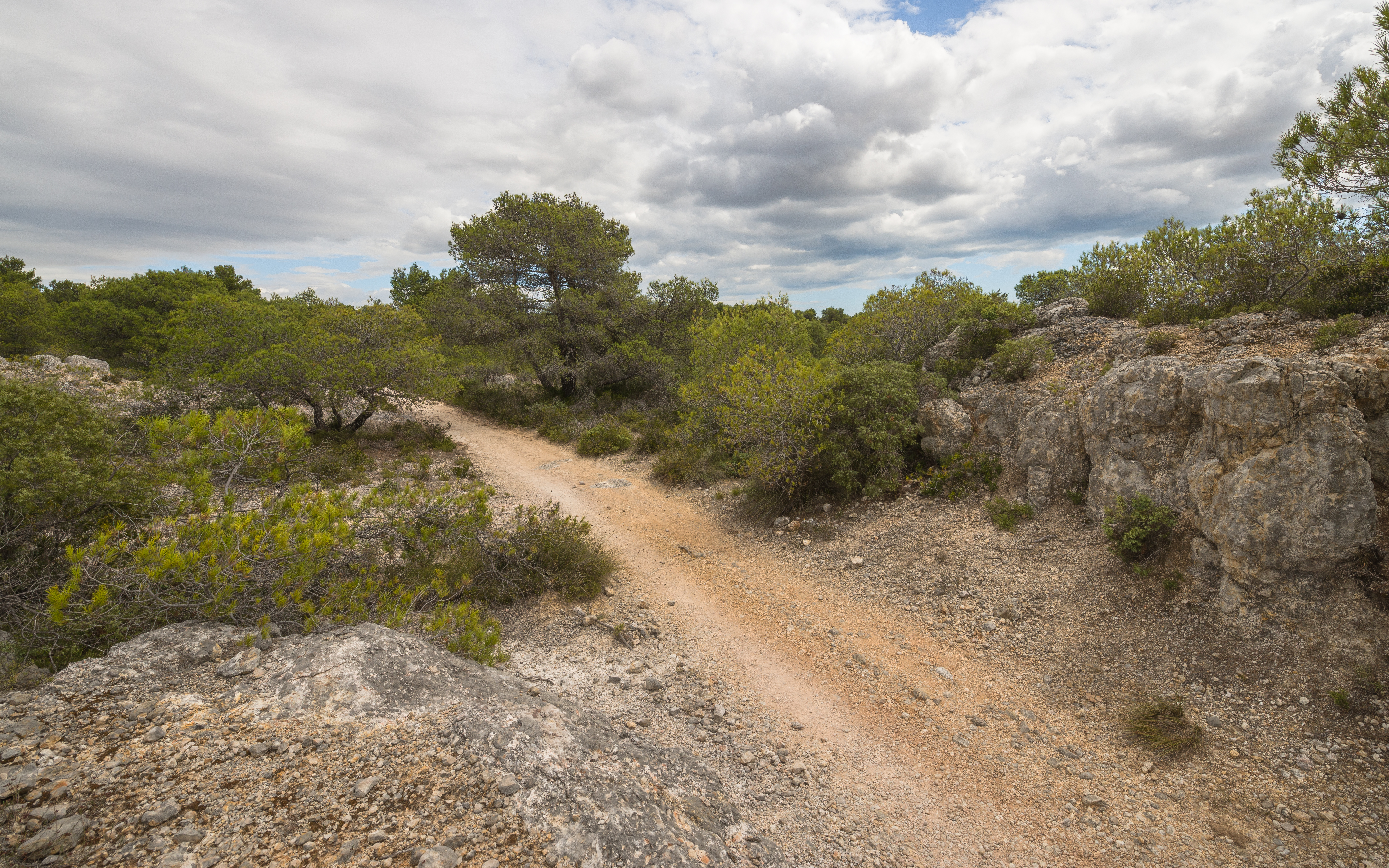 Trail and garrigue. Castelnau-de-Guers, Hérault, France.